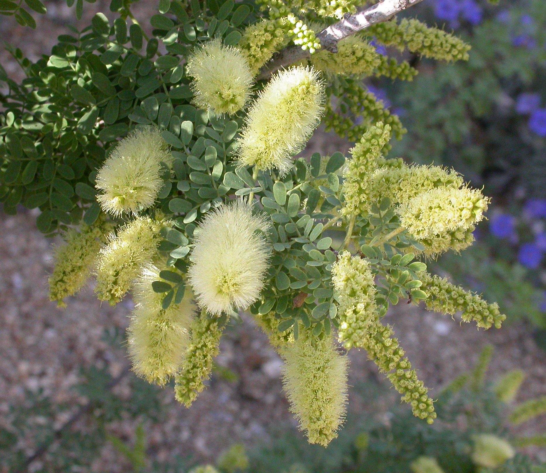 Photographed at BioTrek. Contributed and © by Curtis Clark. Licensed as noted.